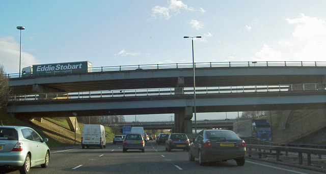 Stopped on the M1 Lofthouse interchange the bridges carry the M62 Intersection of M1 and M62 inevitably creates a line of stationary traffic at most times of the day.